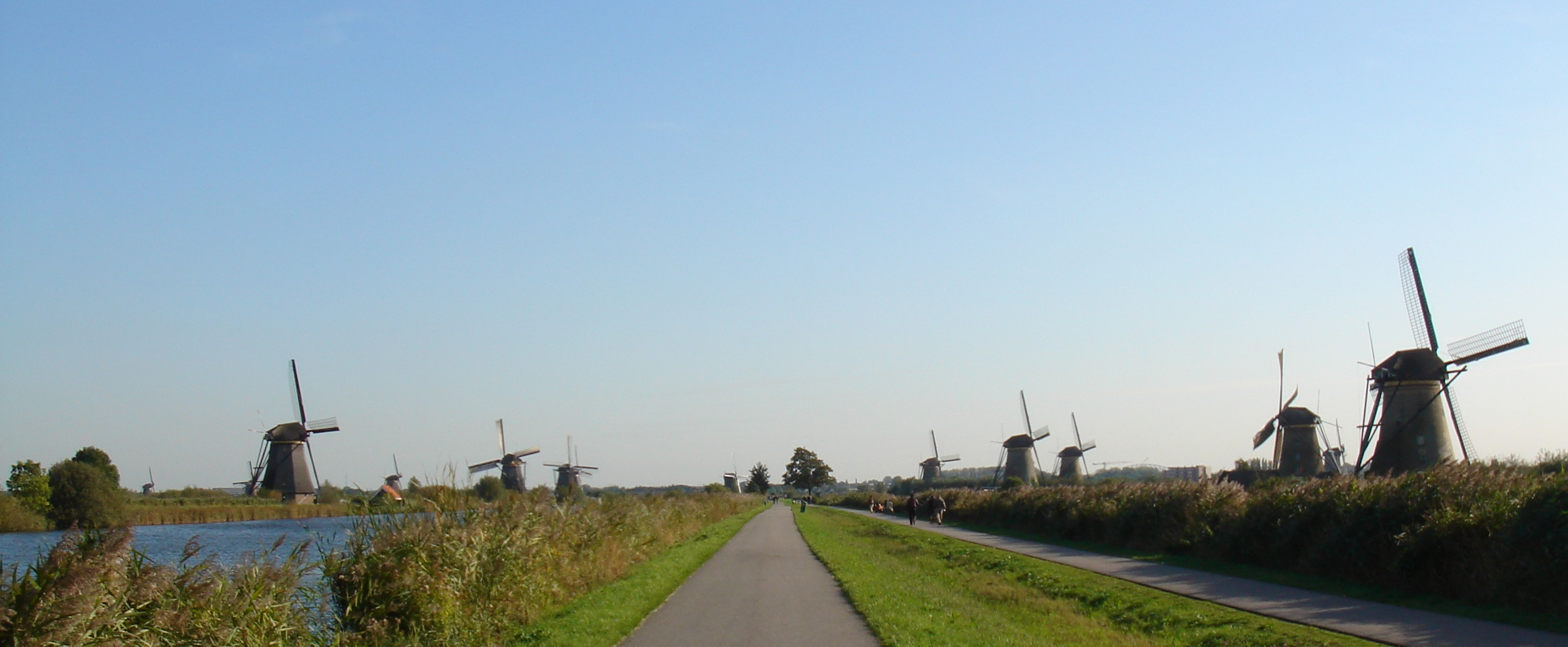 Kinderkijk NL - mills for waterdranage